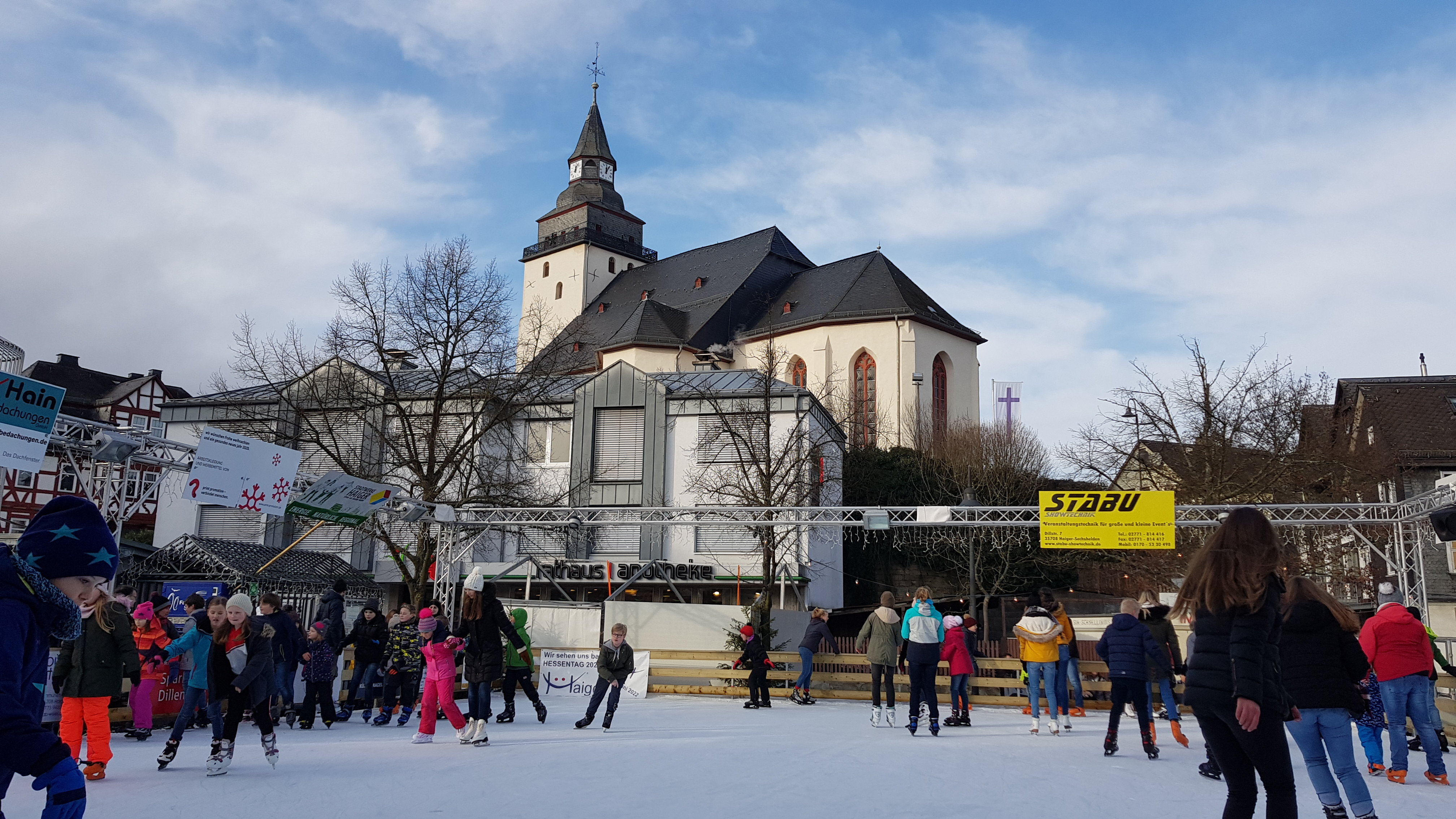 Eisarena in Haiger